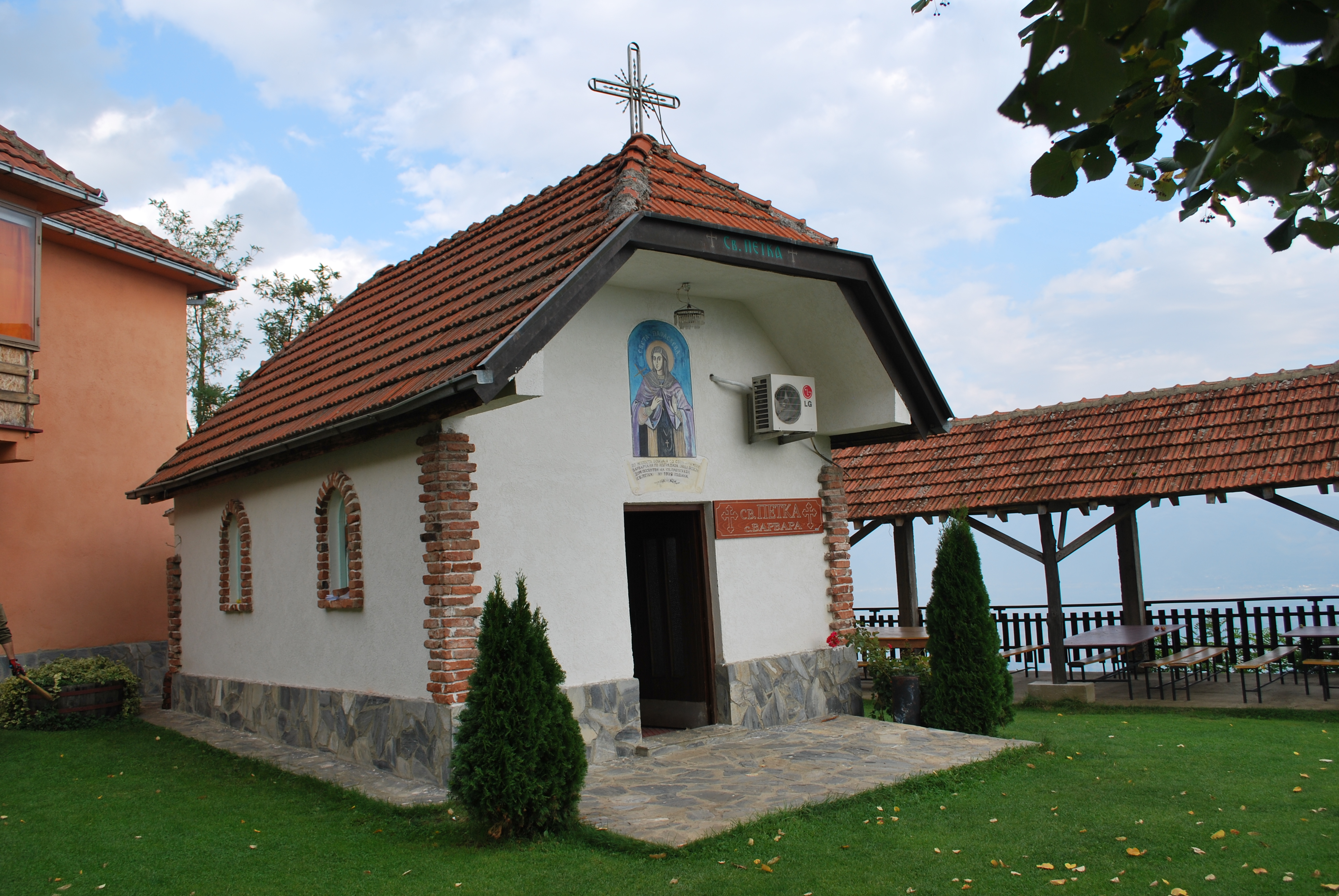 St. Petka Church in Varvara) , Macedonia This image is uploaded as part of the picture contest Wiki Loves Cultural Heritage in Macedonia 2013. English | македонски | +/−